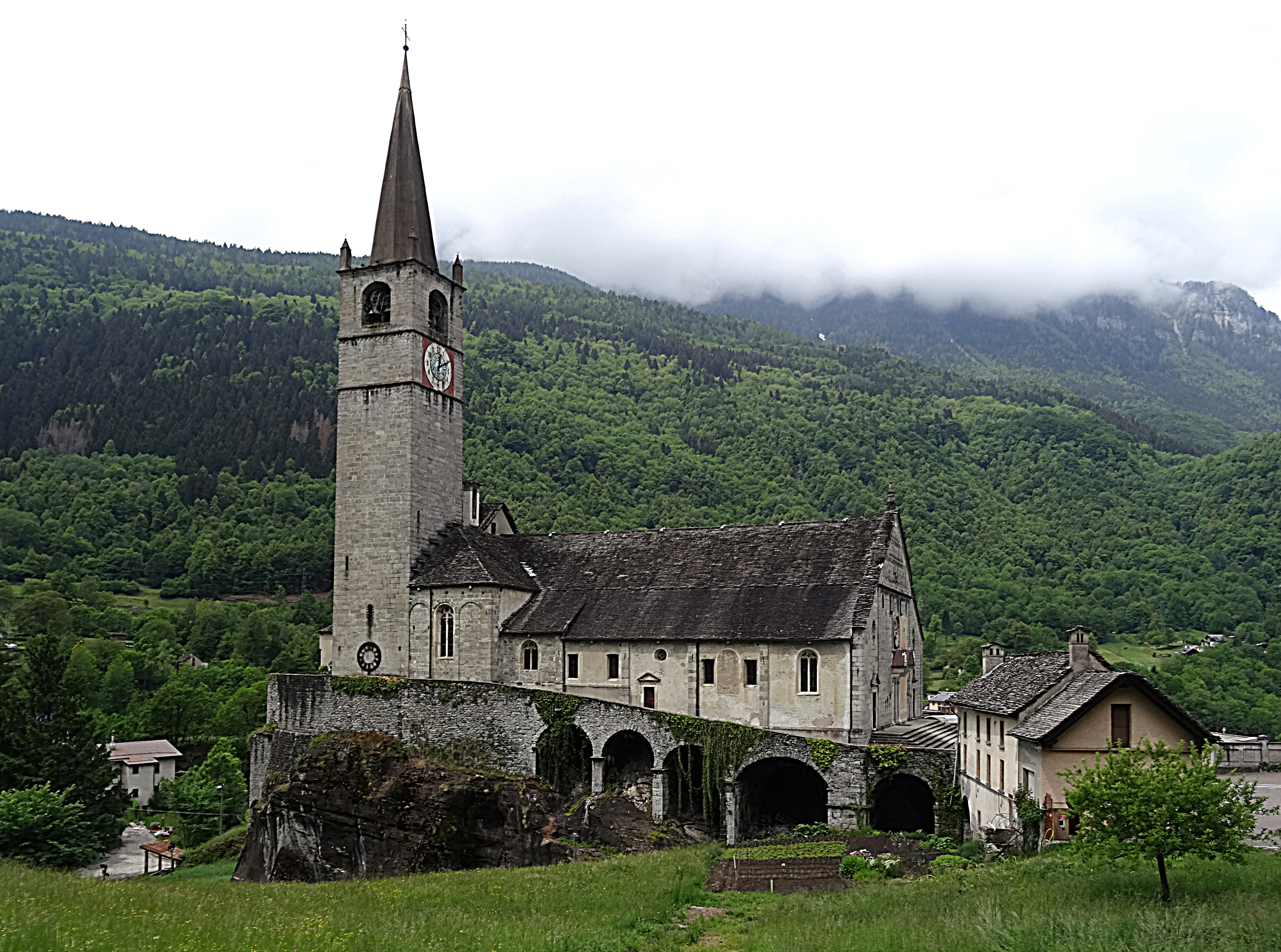 The monumental church of San Gaudenzio in Baceno is one of the most beautiful churches in the Alpine region and is considered an architectural monument of national importance